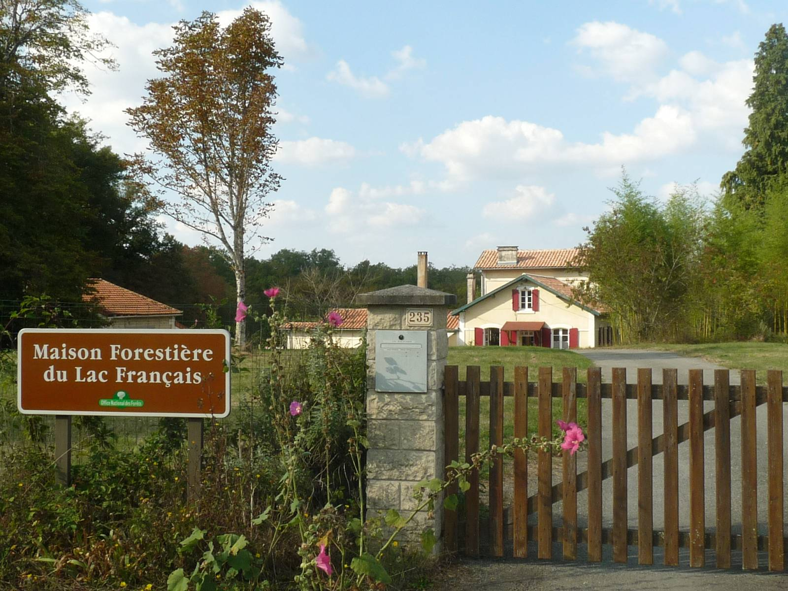 Forestal house in Braconne forest, Charente, SW France